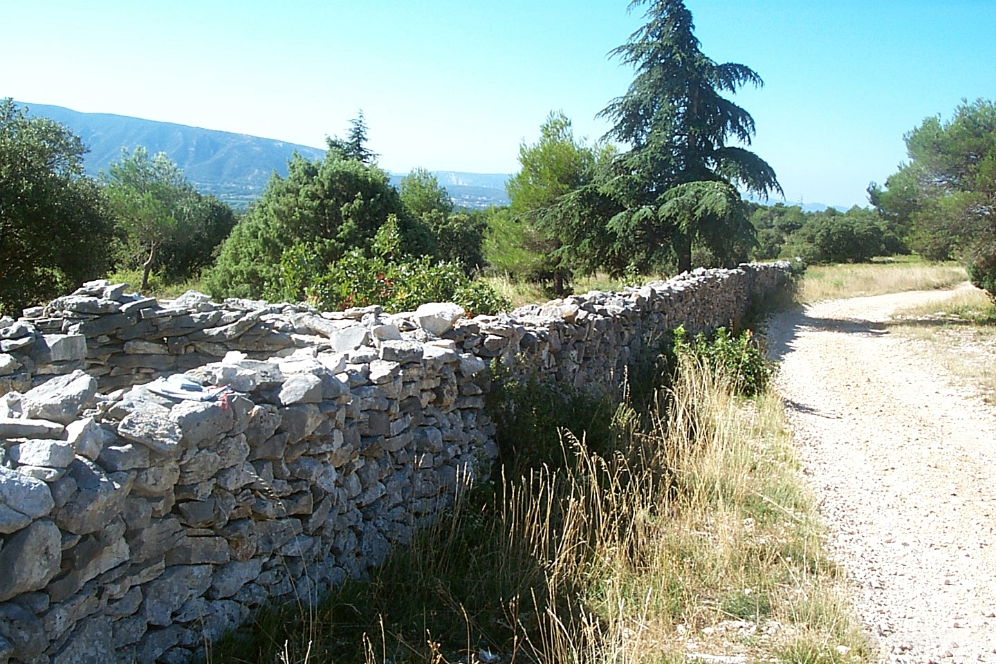 "Mur de la peste", wall of dry stone, originally from 1720, in restoration since 1986. The wall was meant to protect the country north of it from the plague which infested the south of France at the time. This photo was taken during a walking tour between Lagnes and Fontaine de Vaucluse. Contrast and sharpness have been enforced, using The Gimp.